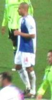 Steven Reid